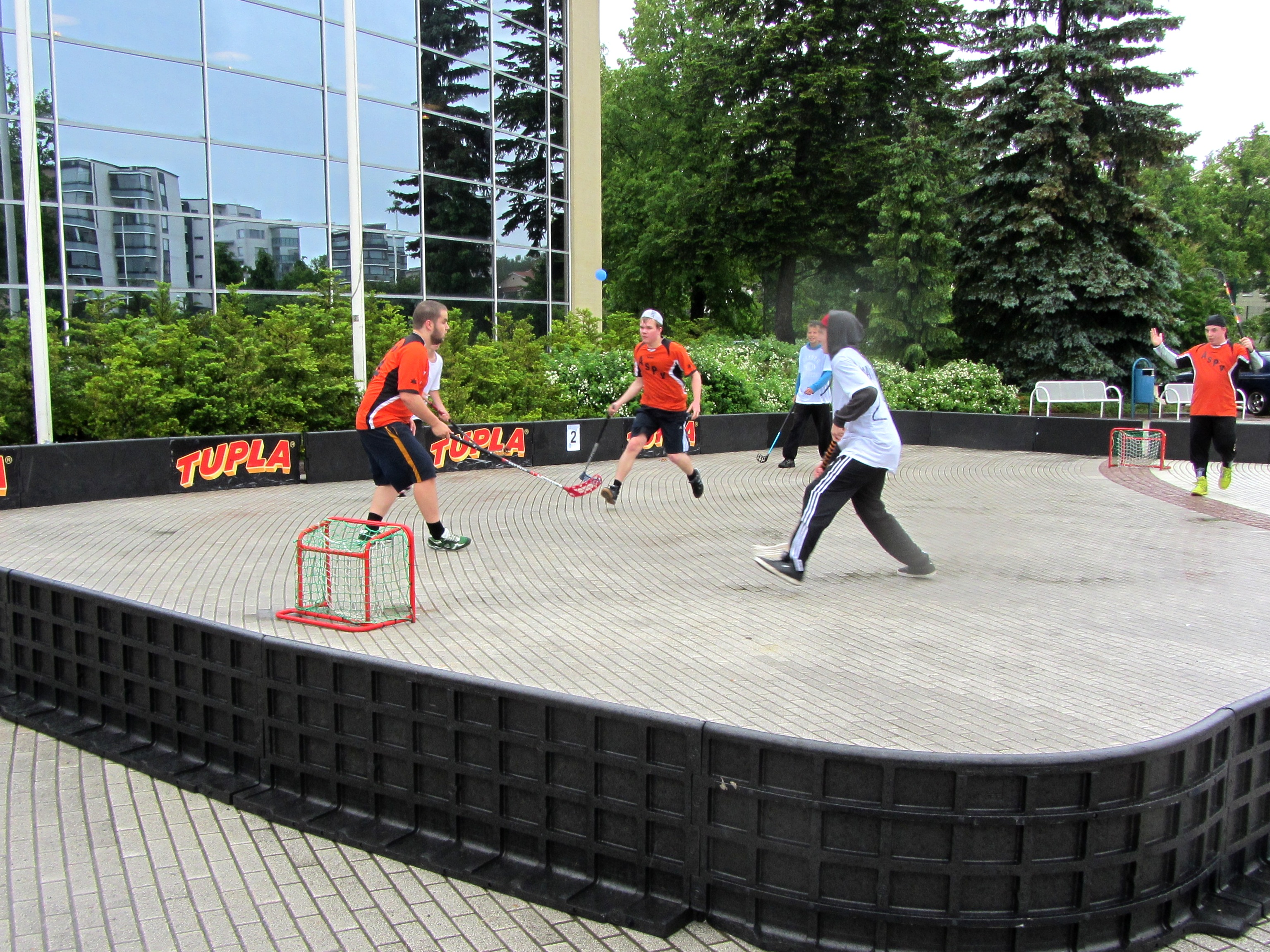 A Street Floorball Tournament was arranged on Paasikivi Square in front of the Library.